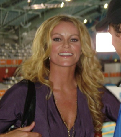 Former dutch swimmer Inge de Bruijn and Jacco Verhaeren at the European LC Championships 2008 in Eindhoven